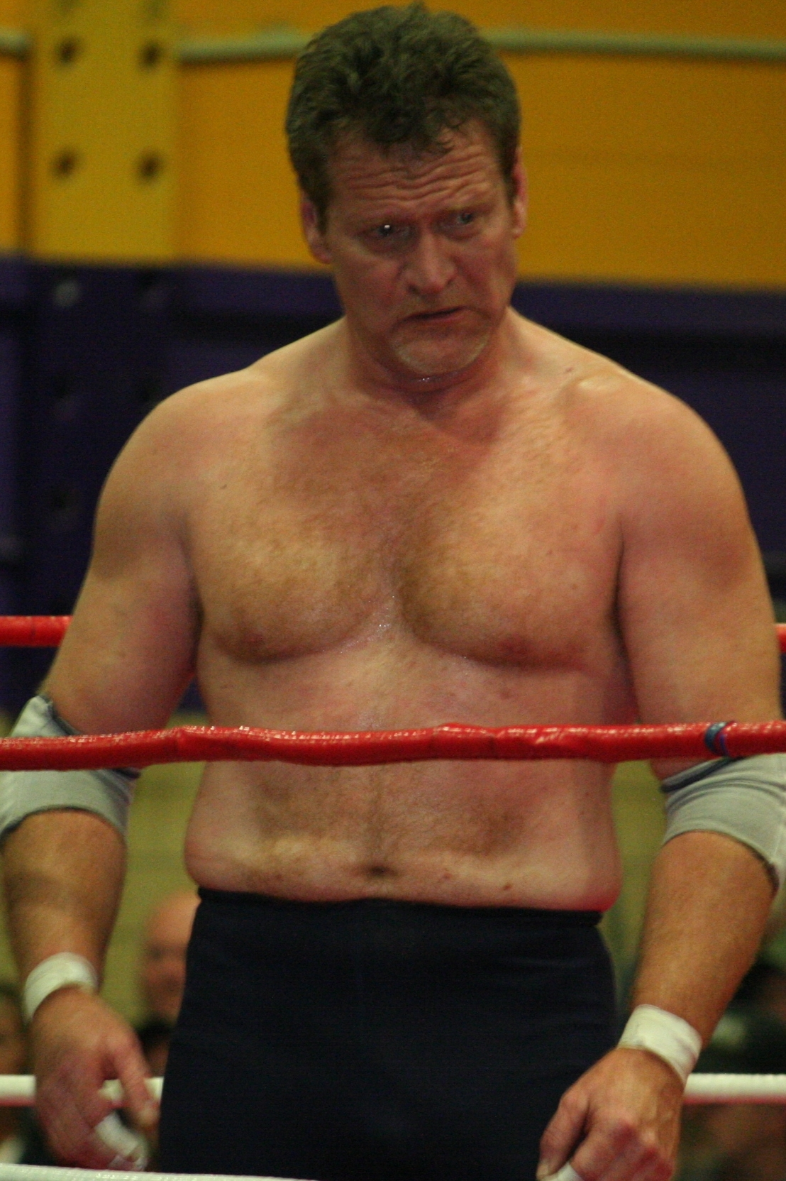 Rip Sawyer during a match at a Top Rope Promotions event in Waynesboro, Virginia, in April 2013. Cropped from original.